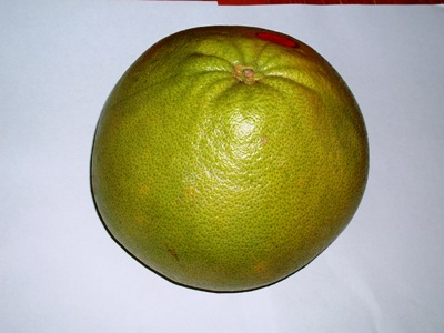 An unpeeled pomelo.